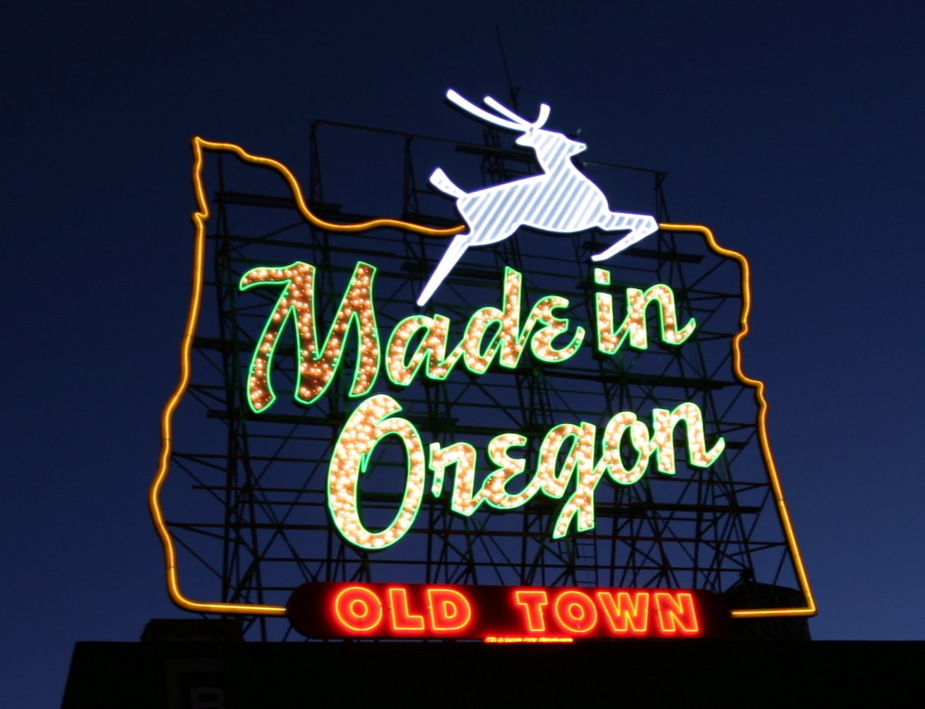 The "Made in Oregon" sign located at the western end of the Burnside Bridge in Portland, Oregon. The sign was originally an advertisement for White Stag and is still known as the White Stag sign (among other names). The sign displayed this "Made in Oregon" wording from 1997 to 2010, and the wording was then changed to "Portland Oregon".